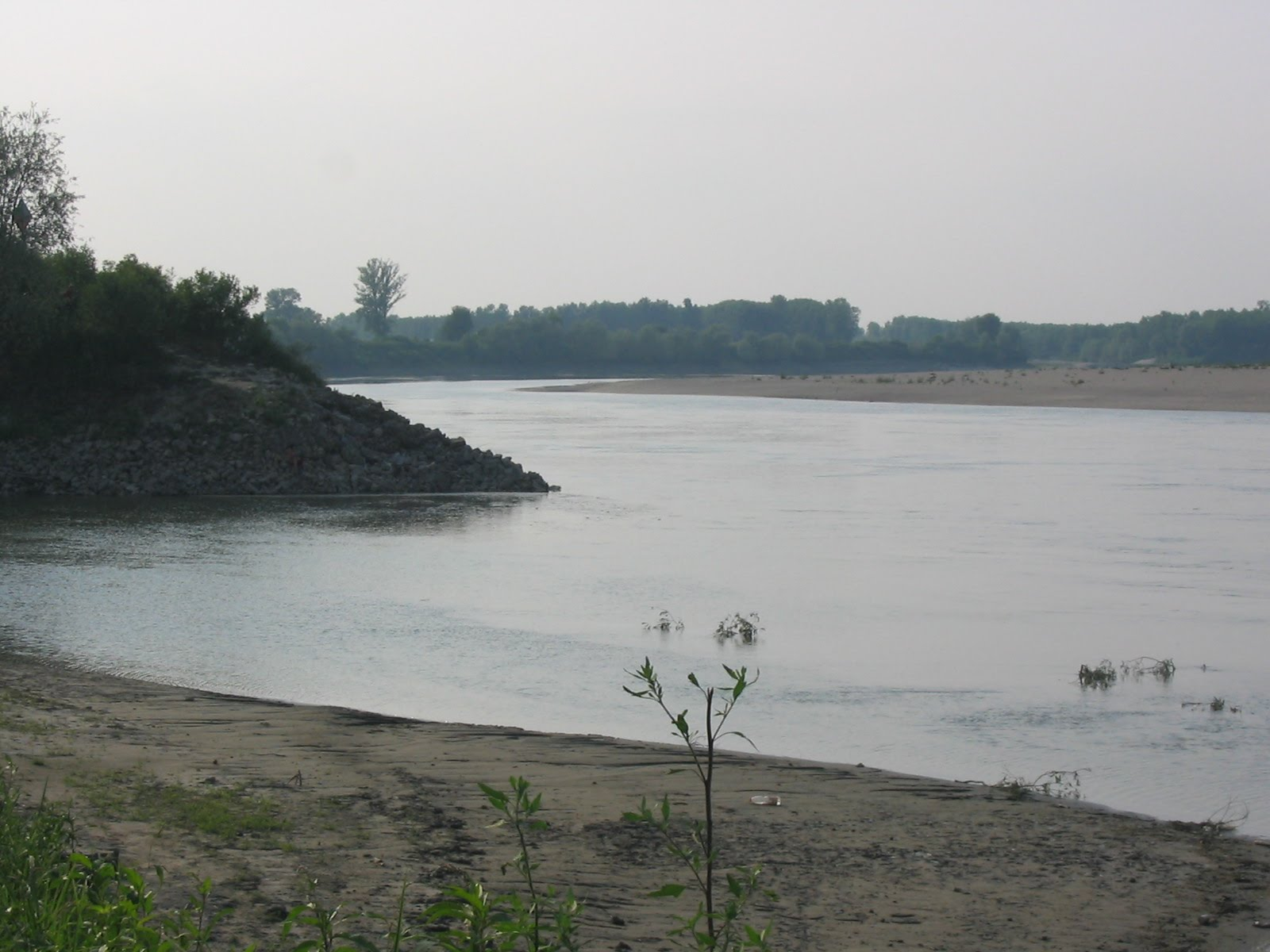 Taro's mouth